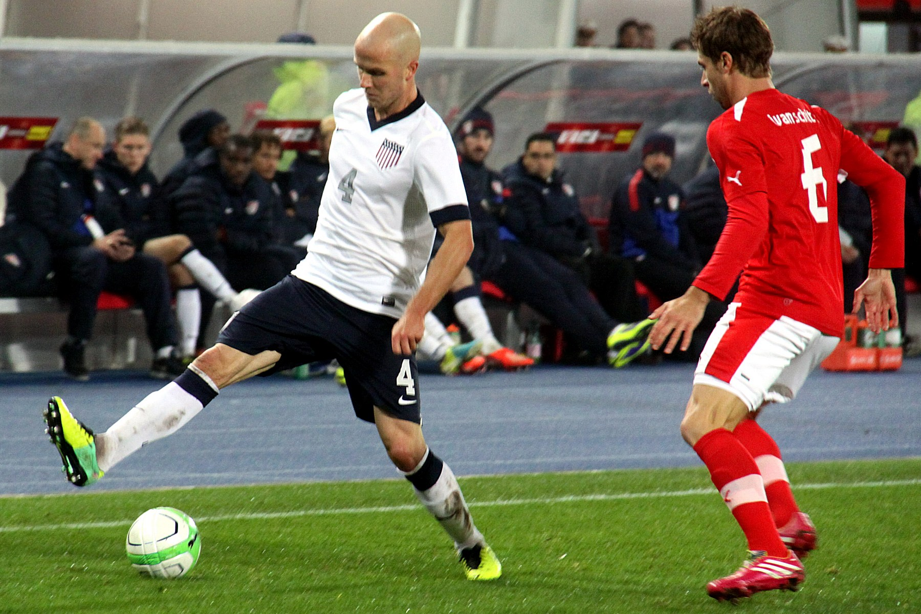 Friendly-match Austria vs. USA (1:0) in the Ernst-Happel-Stadion in Vienna at 2013-03-22. – The photo shows Michael Bradley (USA, left) and Andreas Ivanschitz (Autria, right).